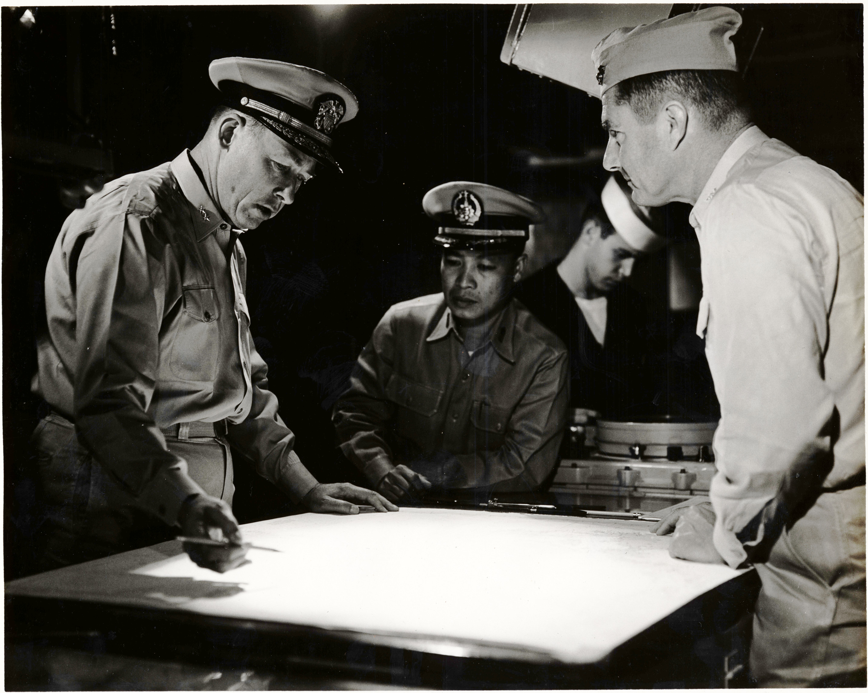 Controlling SEATO Exercise Tulungan, onboard USS Eldorado (AGC11), March 1962, taken in Flag Plot. From left, Rear Admiral Hooper ( Exercise Director and Amphibious Task Force Commander), Cdr Jose M. Vasquey (Philippine Navy), unnamed, Col. T. A. Culhane (USMC). 2. Date. c. March 1961 3. Source. US Navy photograph, from personal collection of uploader